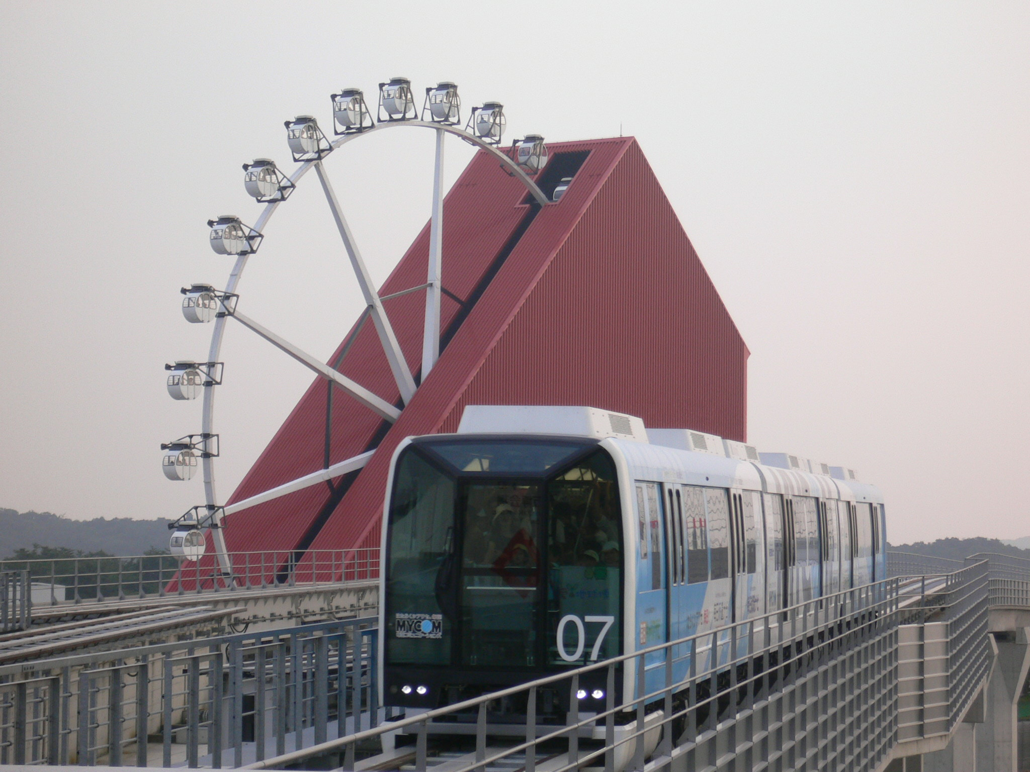 "JAMA Wonder Wheel Pavilion" from Banpaku-kaijo (Expo site) Station (万博会場駅), Nagakute T, Aichi P.